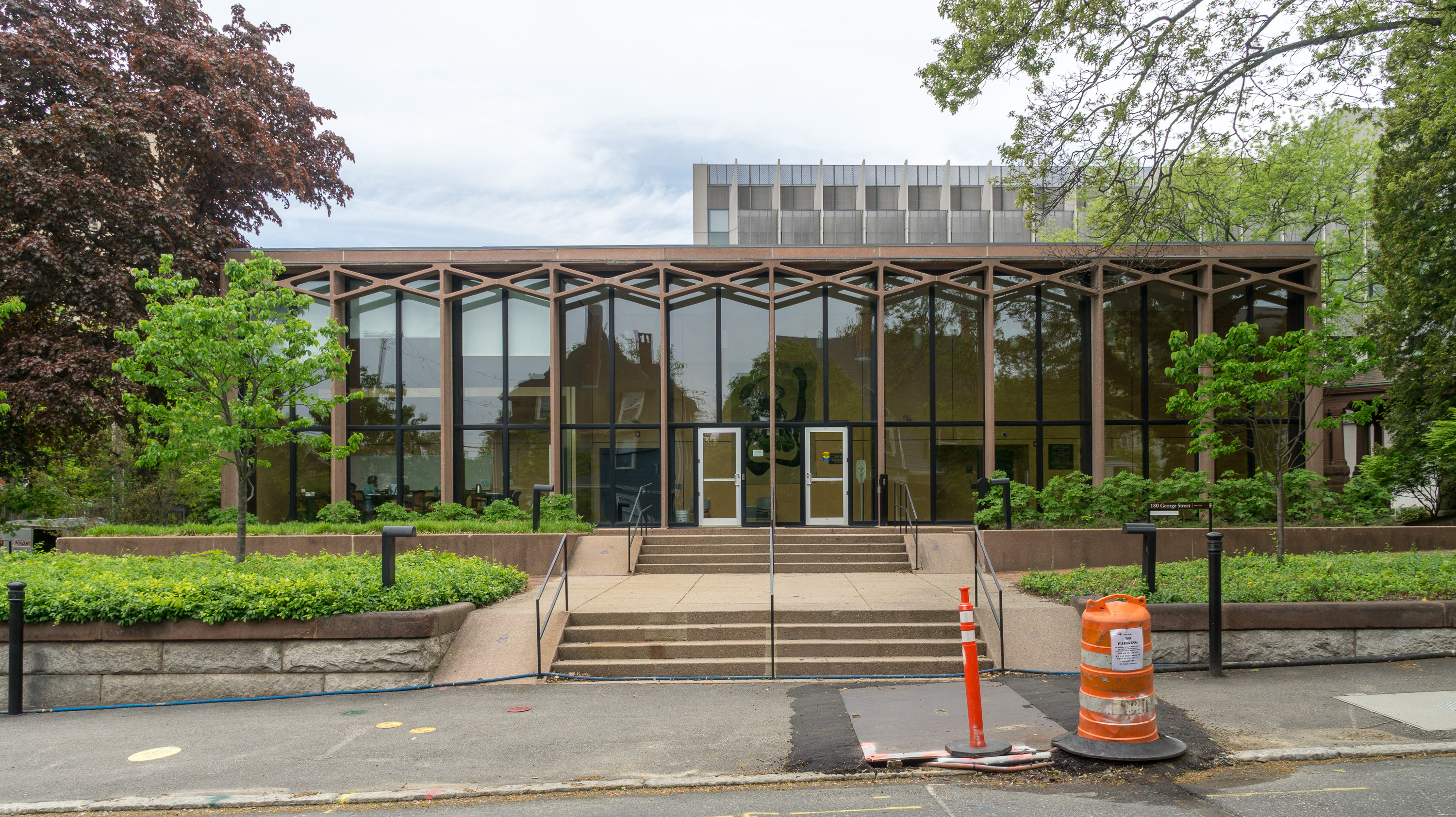 Computing Laboratory at 180 George Street. Philip Johnson, architect. 1961.